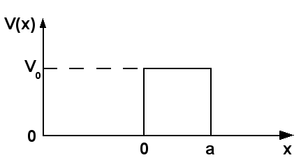 Milad Fatenejad (myself)